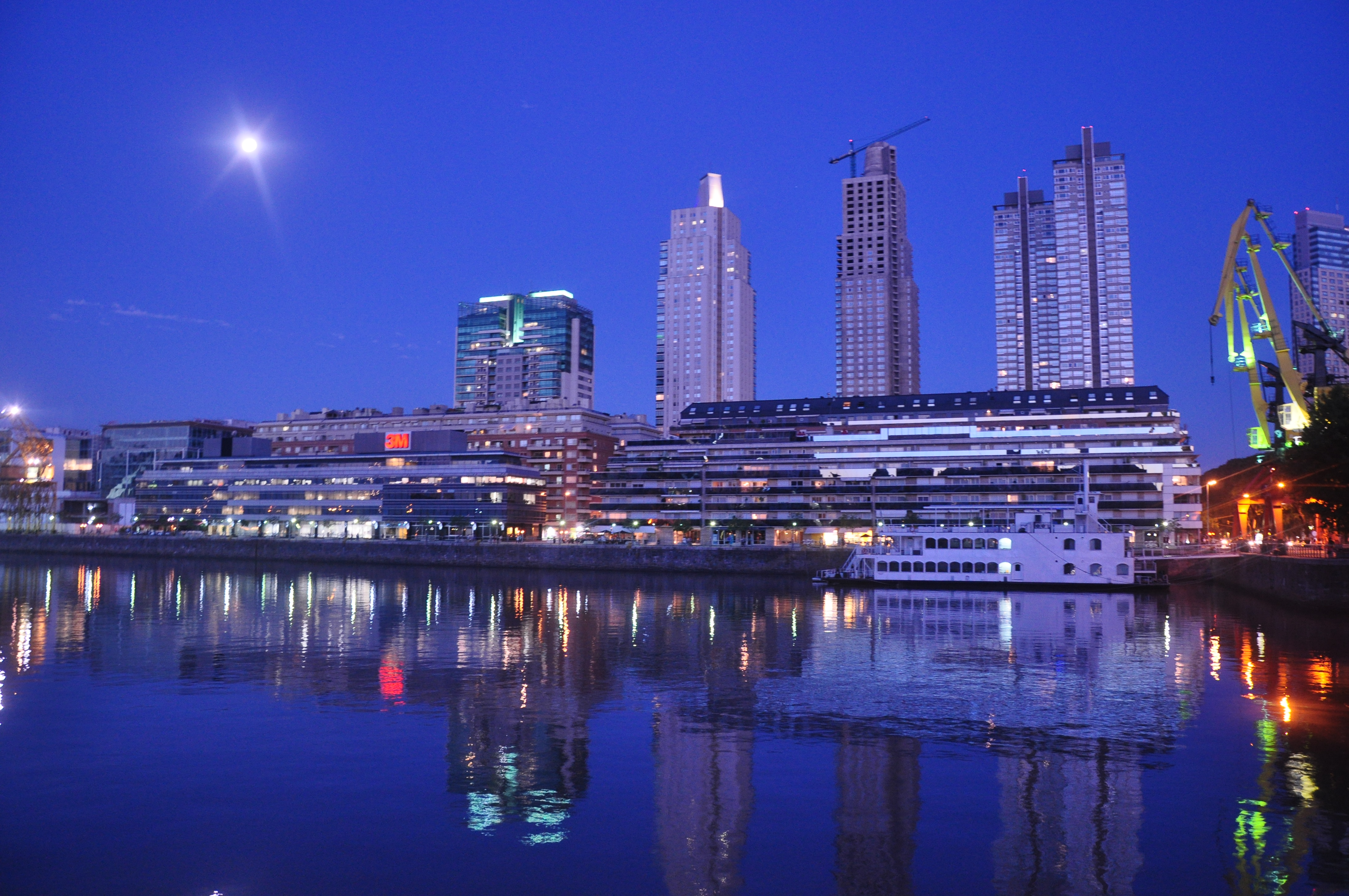 Nighttime view along Dock 3, in the Puerto Madero ward of Buenos Aires.